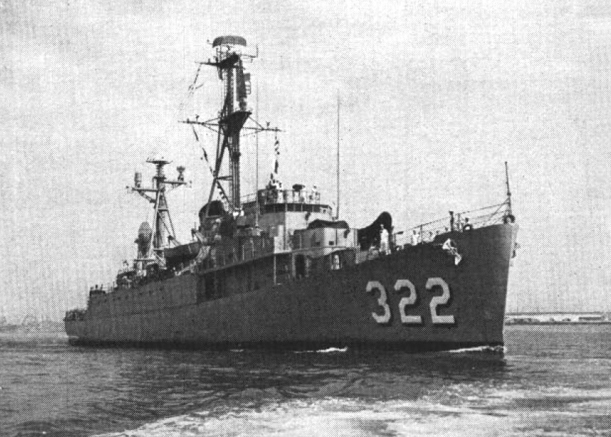 The U.S. Navy radar-picket destroyer escort USS Newell (DER-322), circa 1959.